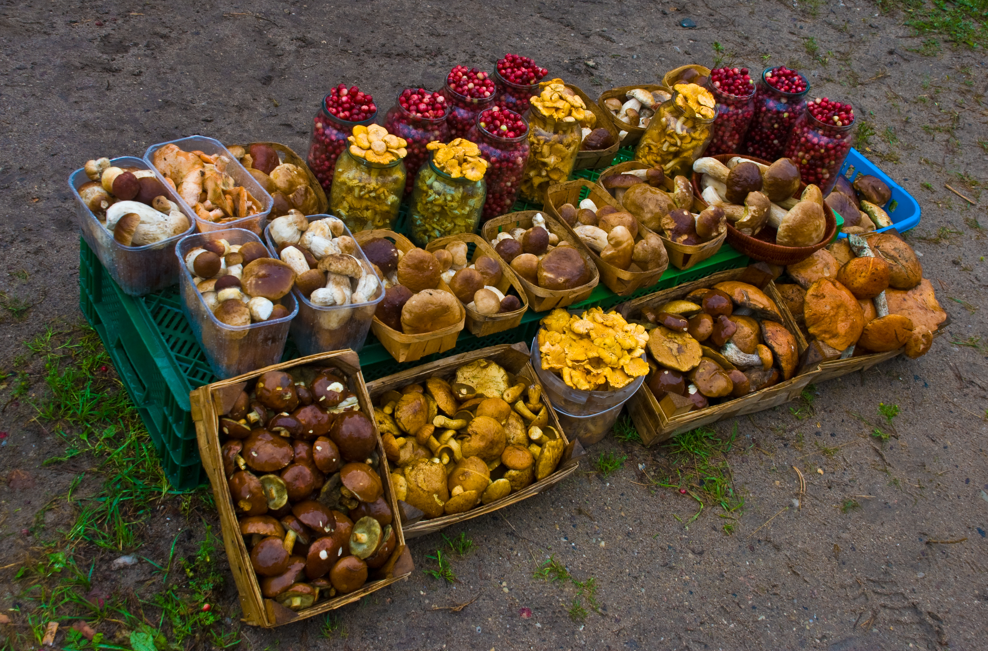 Mushrooms and berries, picked in nearby woods, are sold on a roadside near Varena, Lithuania. The region is famous for its forests, mushrooms, and berries.